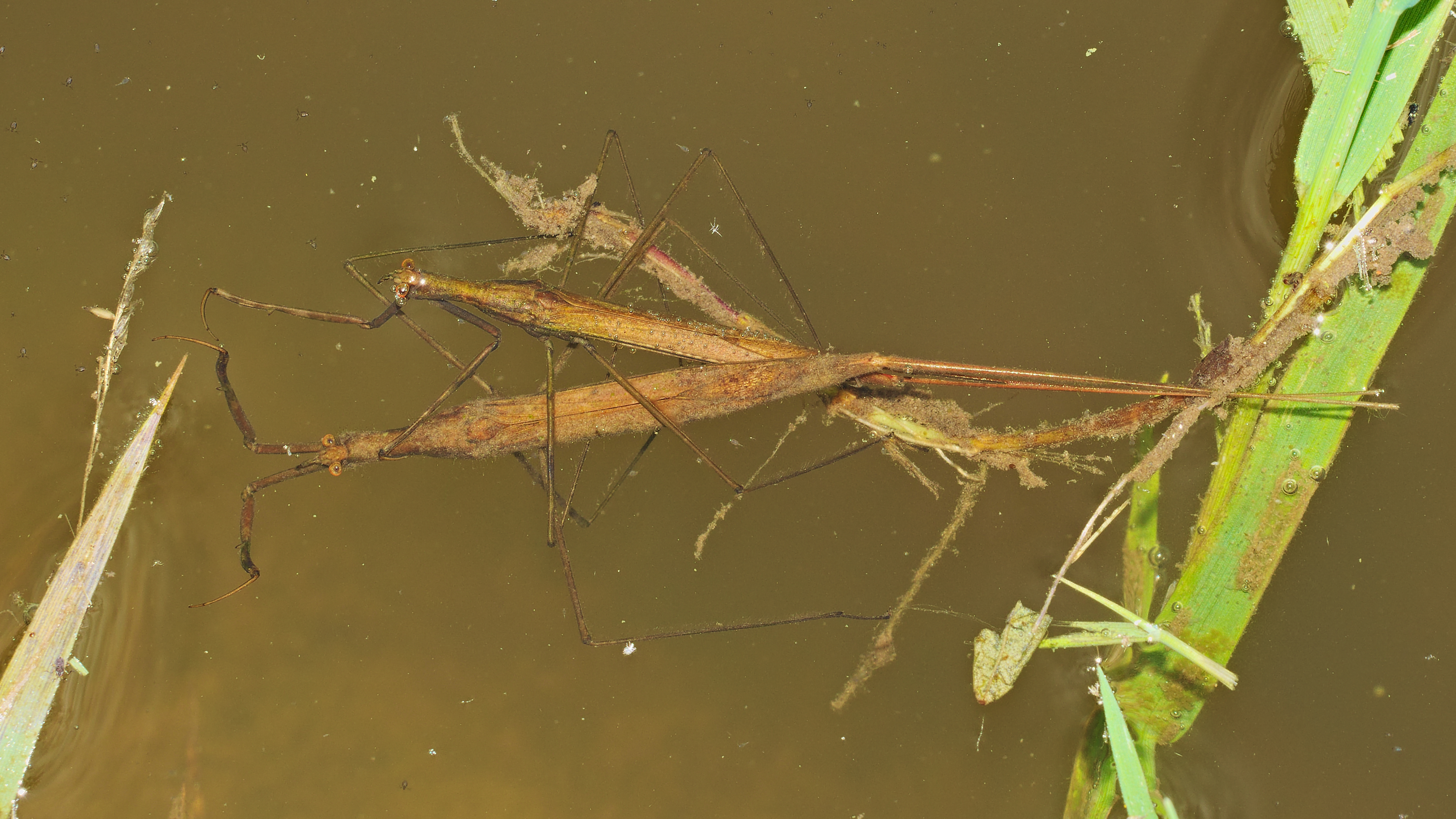 Ranatra linearis, mating. Taken by the fishing ponds in Rimbach, Hesse, Germany.